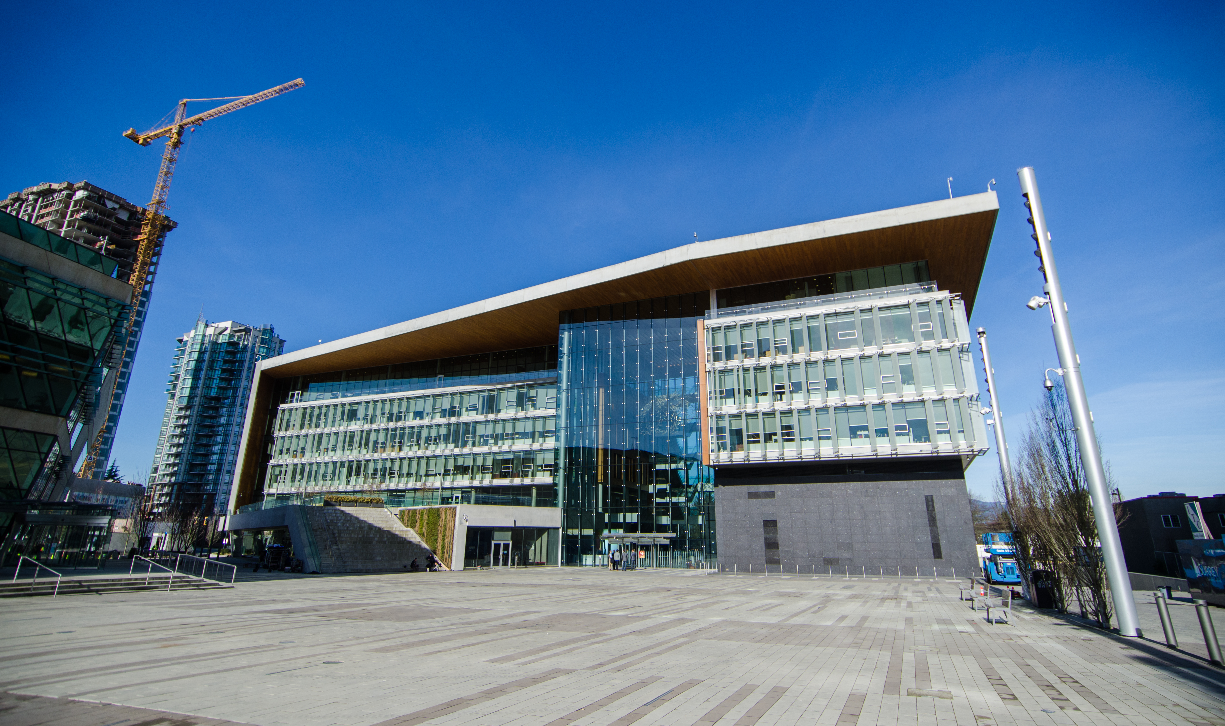 Seen in The 100, The Flash, and Continuum.